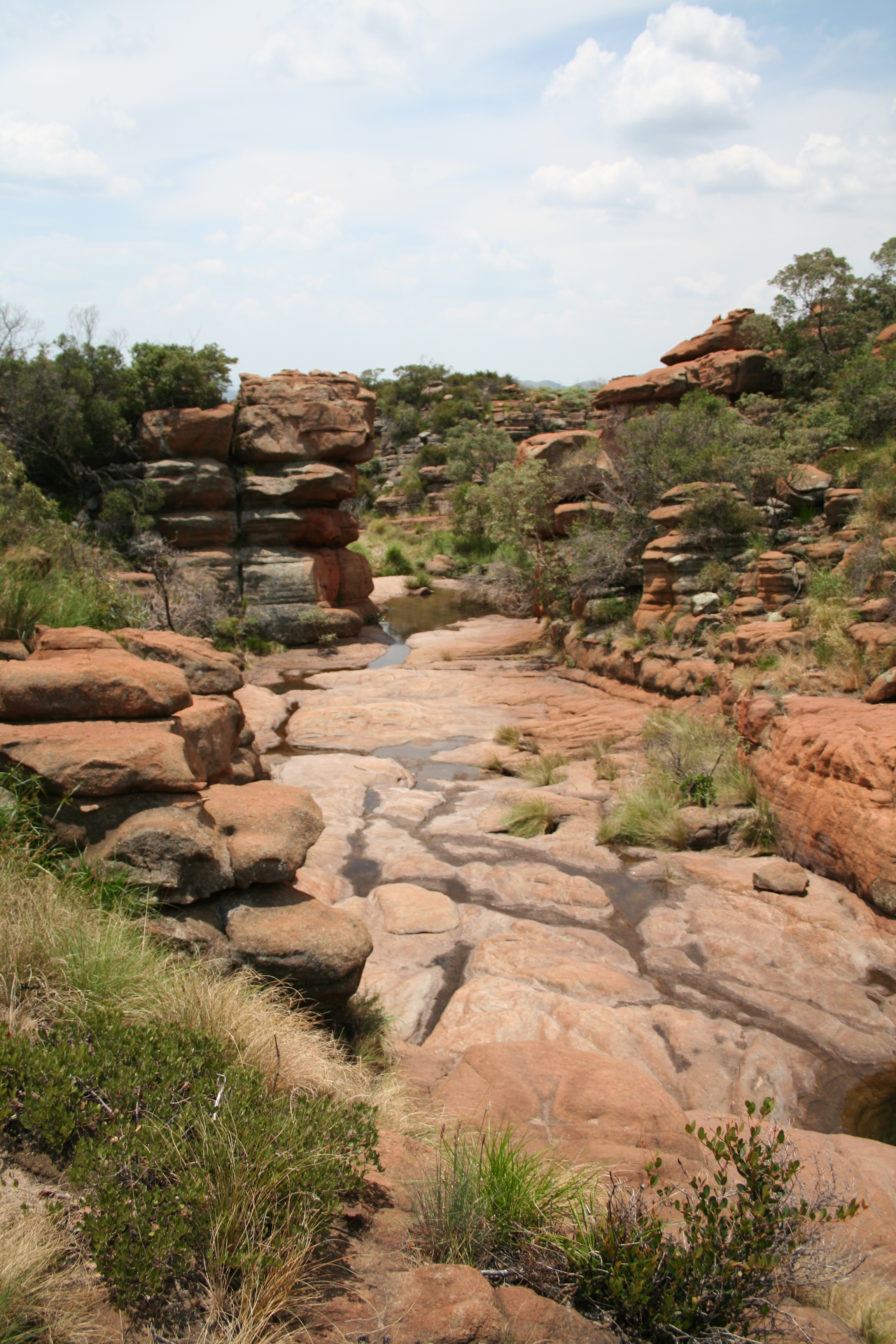 Landscape in Mountain Sanctuary Park, Magaliesberg, South Africa